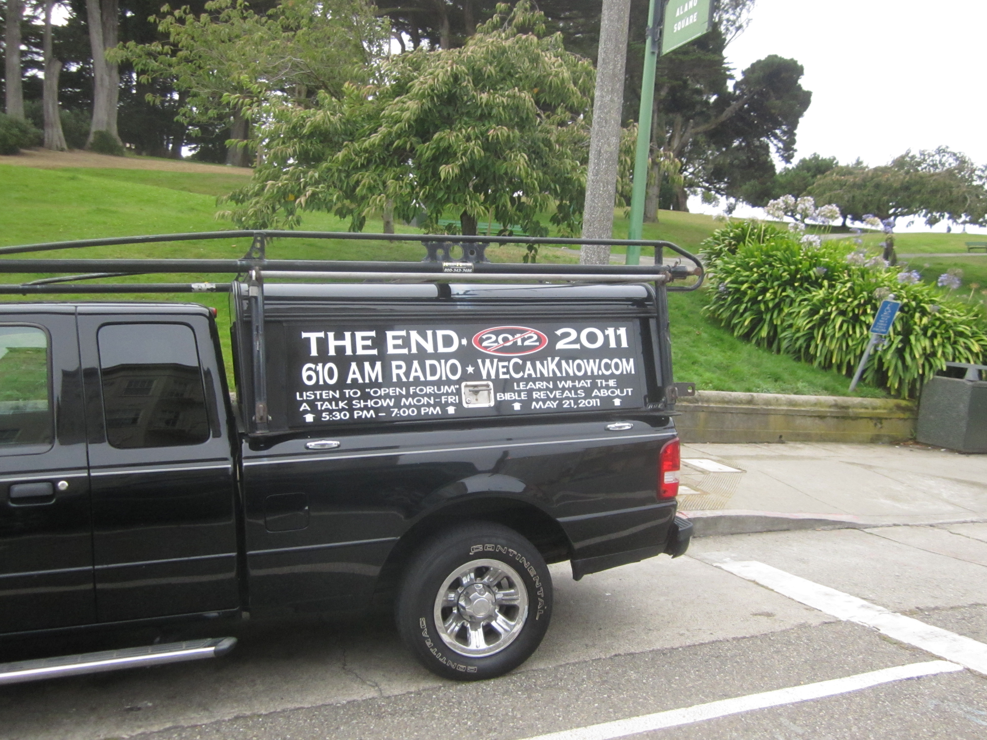 Pickup truck with wikipedia:2011 end times prediction message. San Francisco, California.